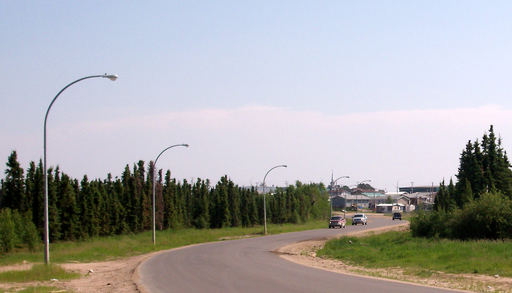 Marie Street in La Loche, Saskatchewan showing central area in the distance.